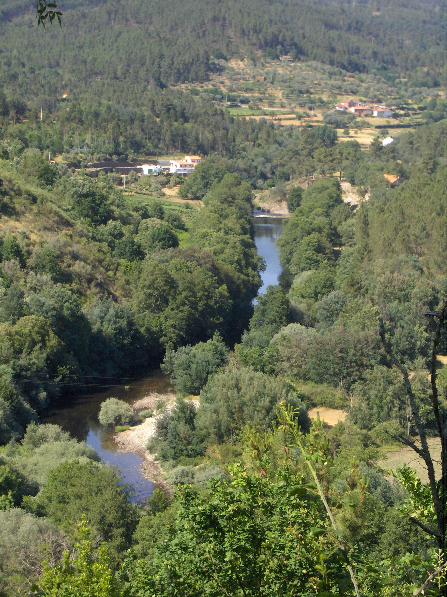 View of the River Alva near Vila Cova de Alva, Portugal.